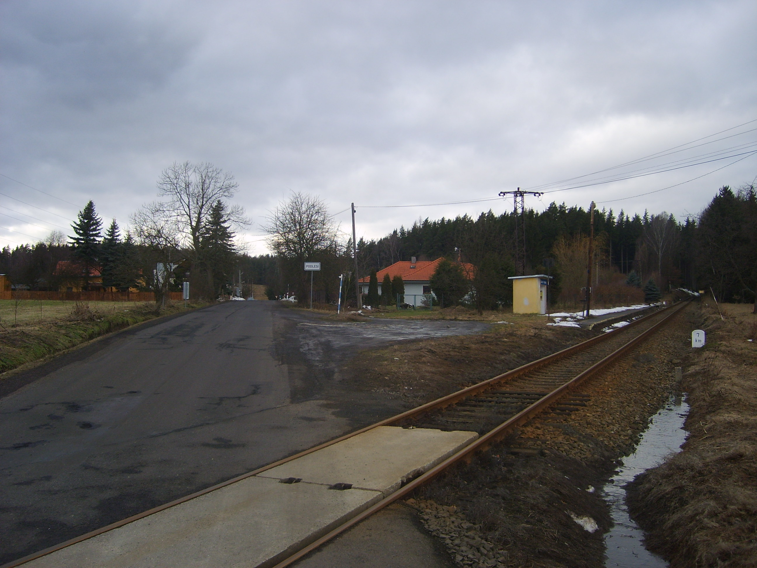 Train stop in Sadov-Podlesí, Czech Republic, on railroad line from Karlovy Vary to Merklín